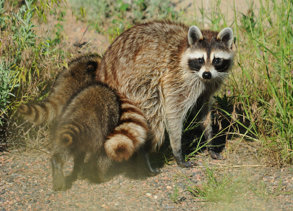 A raccoon and its babies are spotted at Rocky Mountain Arsenal National Wildlife Refuge. Photo Credit: Rich Keen / DPRA